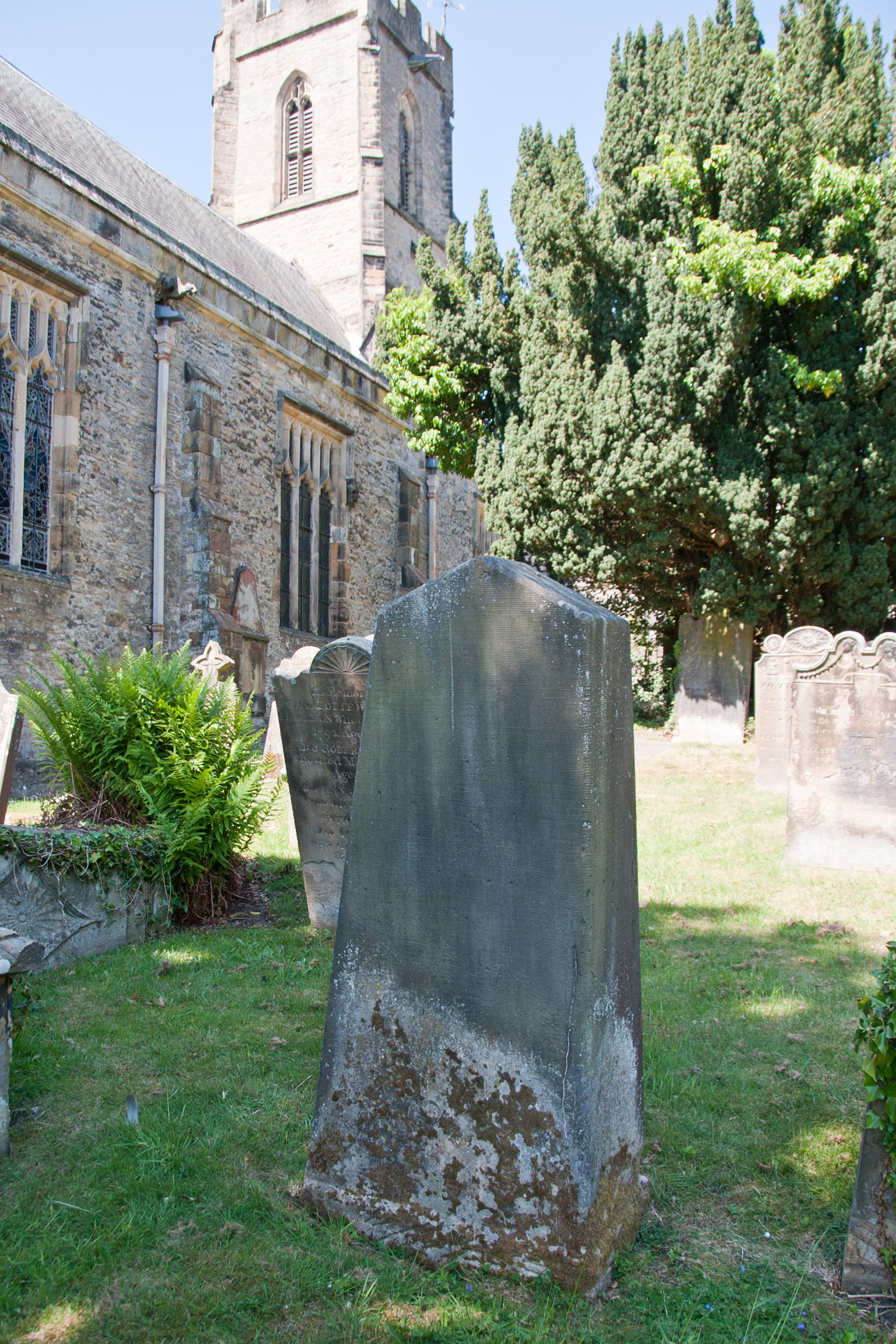 The Plague Stone in St Mary's churchyard, Richmond, North Yorkshire